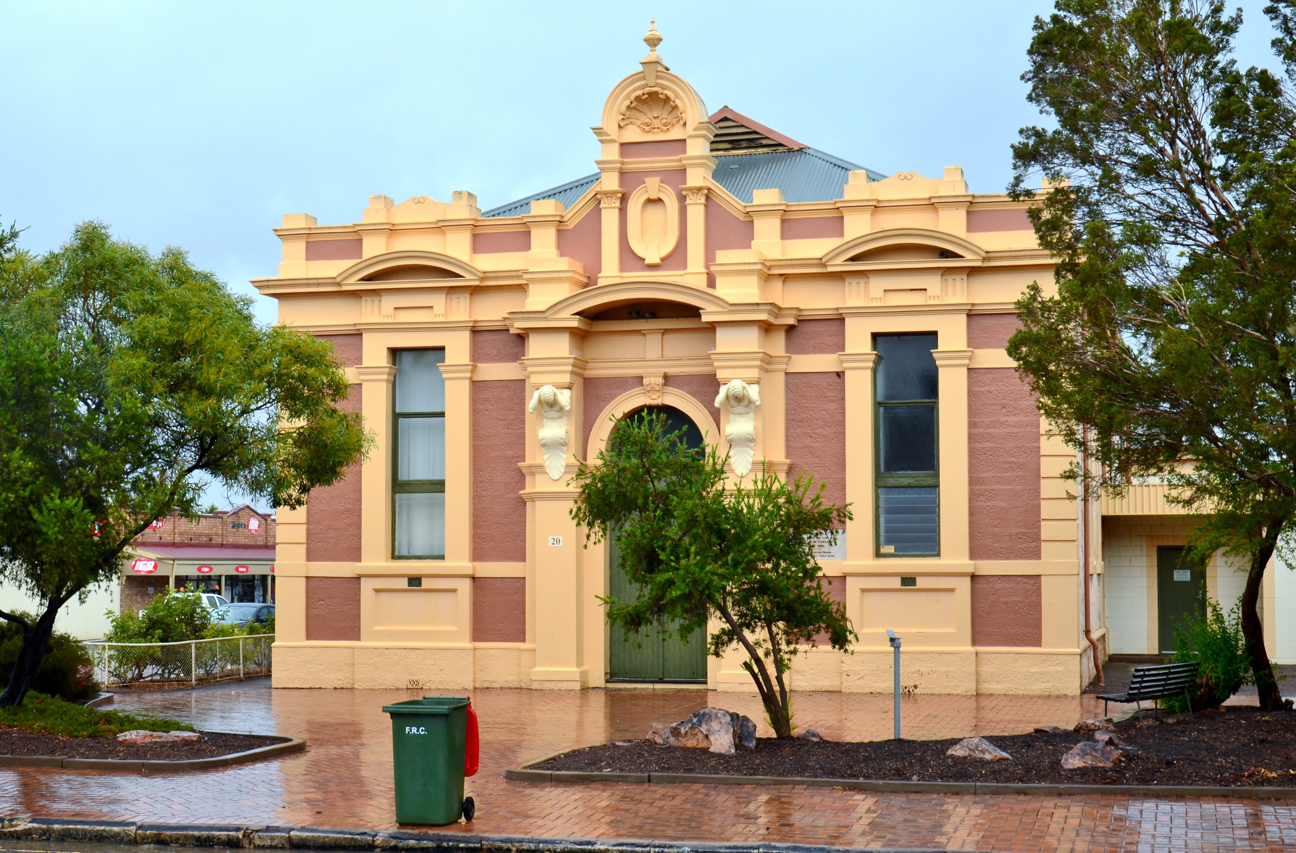 View of the Quorn Town Hall, Quorn, South Australia